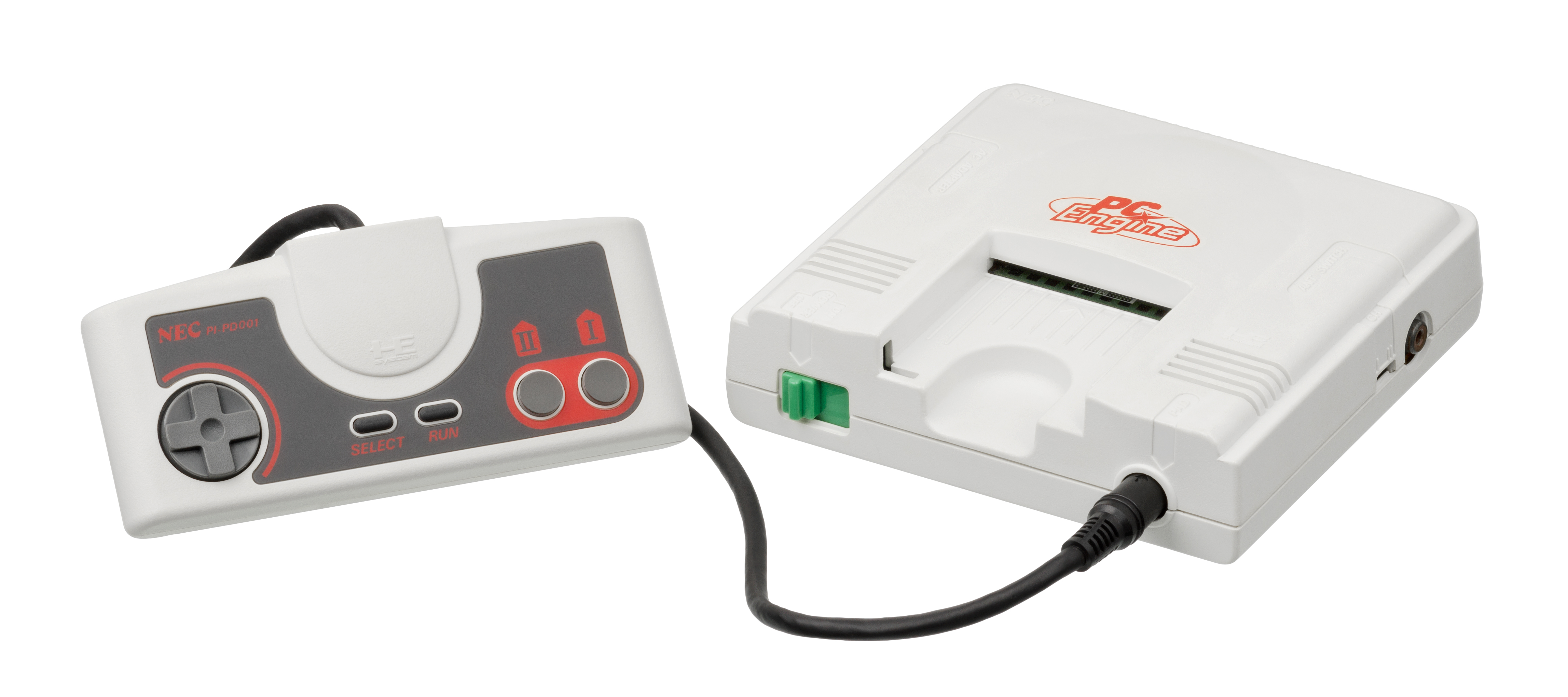 The PC Engine video game console, shown with controller. Released in 1987 in Japan, this console was produced in a joint venture between the electronics company NEC and the gaming software company Hudson Soft. The PC Engine would later be brought to North America and Europe as the rebranded and redesigned TurboGrafx-16 in 1989.